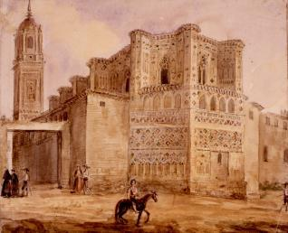 Engaving of the back facade of the church of the monastery of San Pedro Mártir, Calatayud, by Valentín Carderera y Solano. Dating: 1820 - 1880. Museo Lázaro Galdiano.